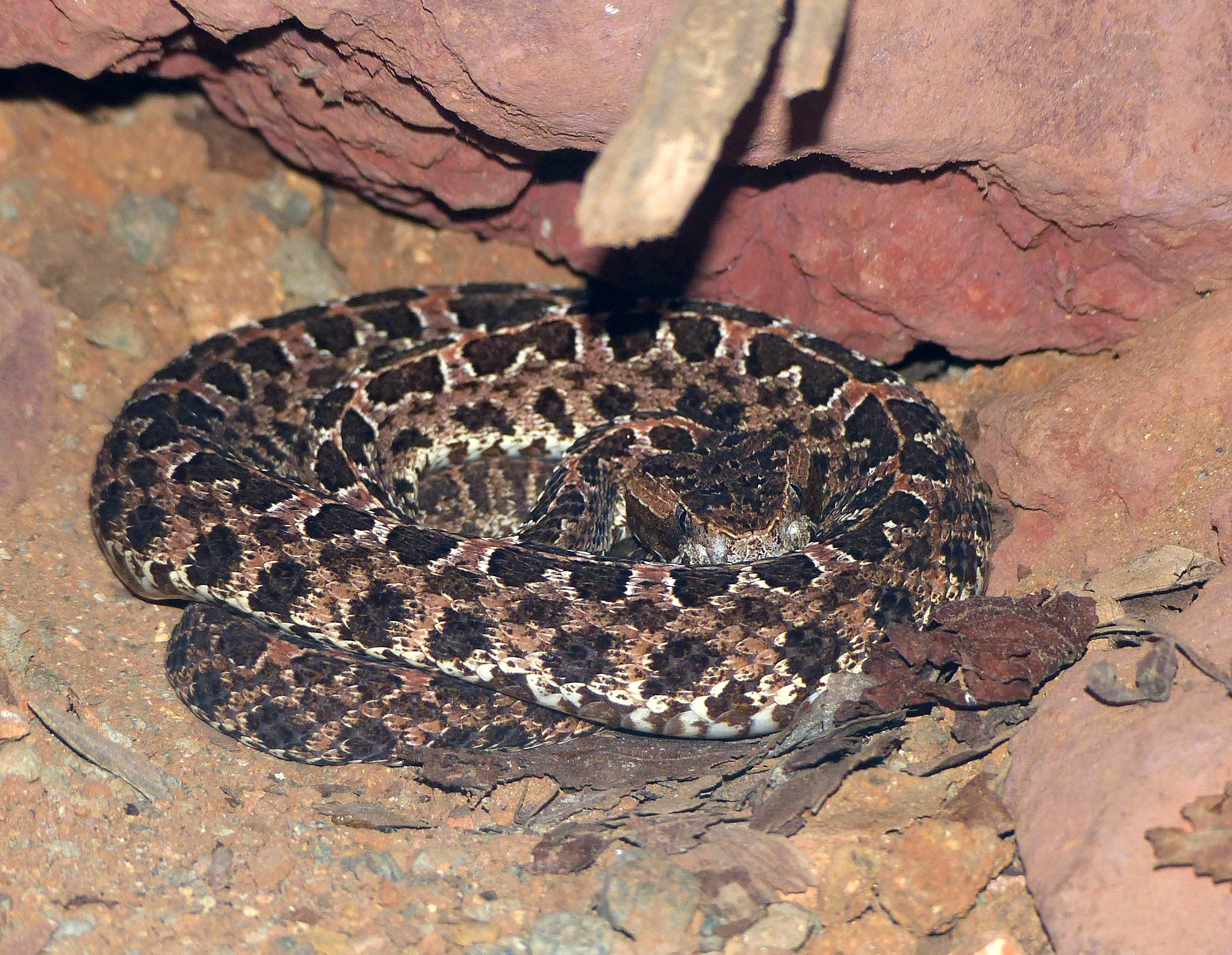 Porthidium ophryomegas in captivity